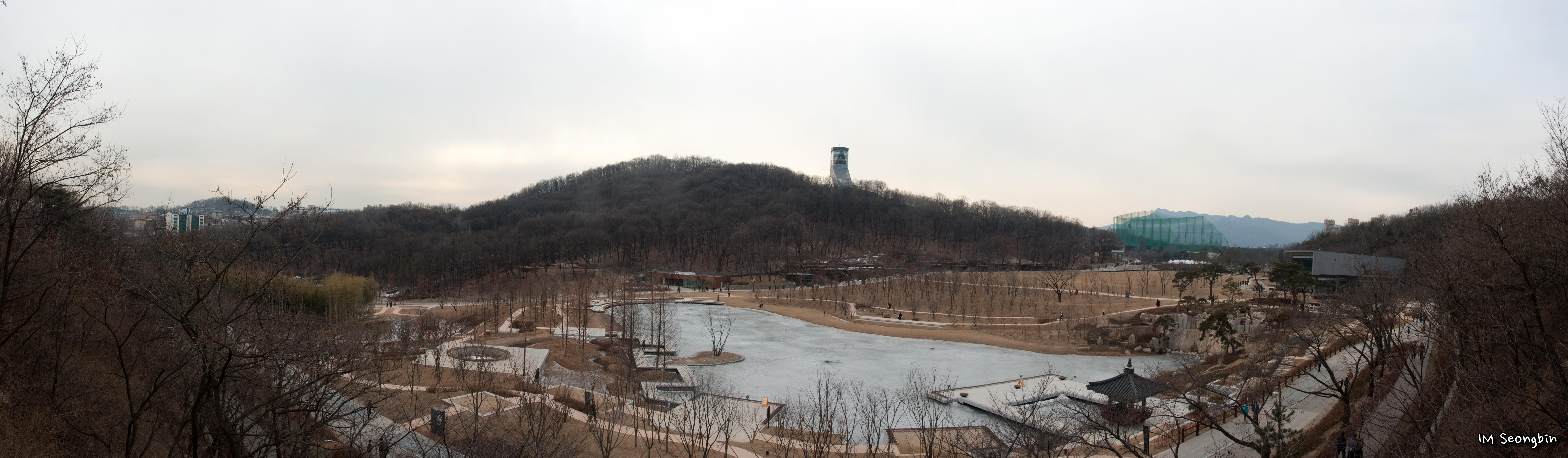 Dreamforest, Gangbuk, Seoul (북서울 꿈의 숲)